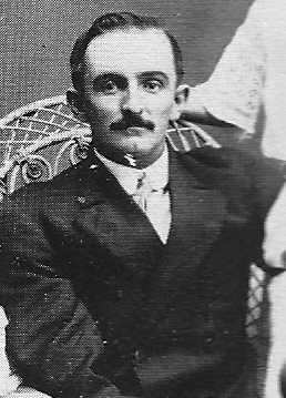 William K. Zern (circa 1910)